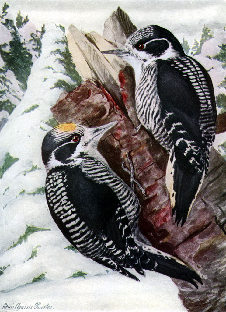 American Three-toed Woodpecker Picoides dorsalis, formerly Picoides tridactylus dorsalis, offset reproduction of watercolor